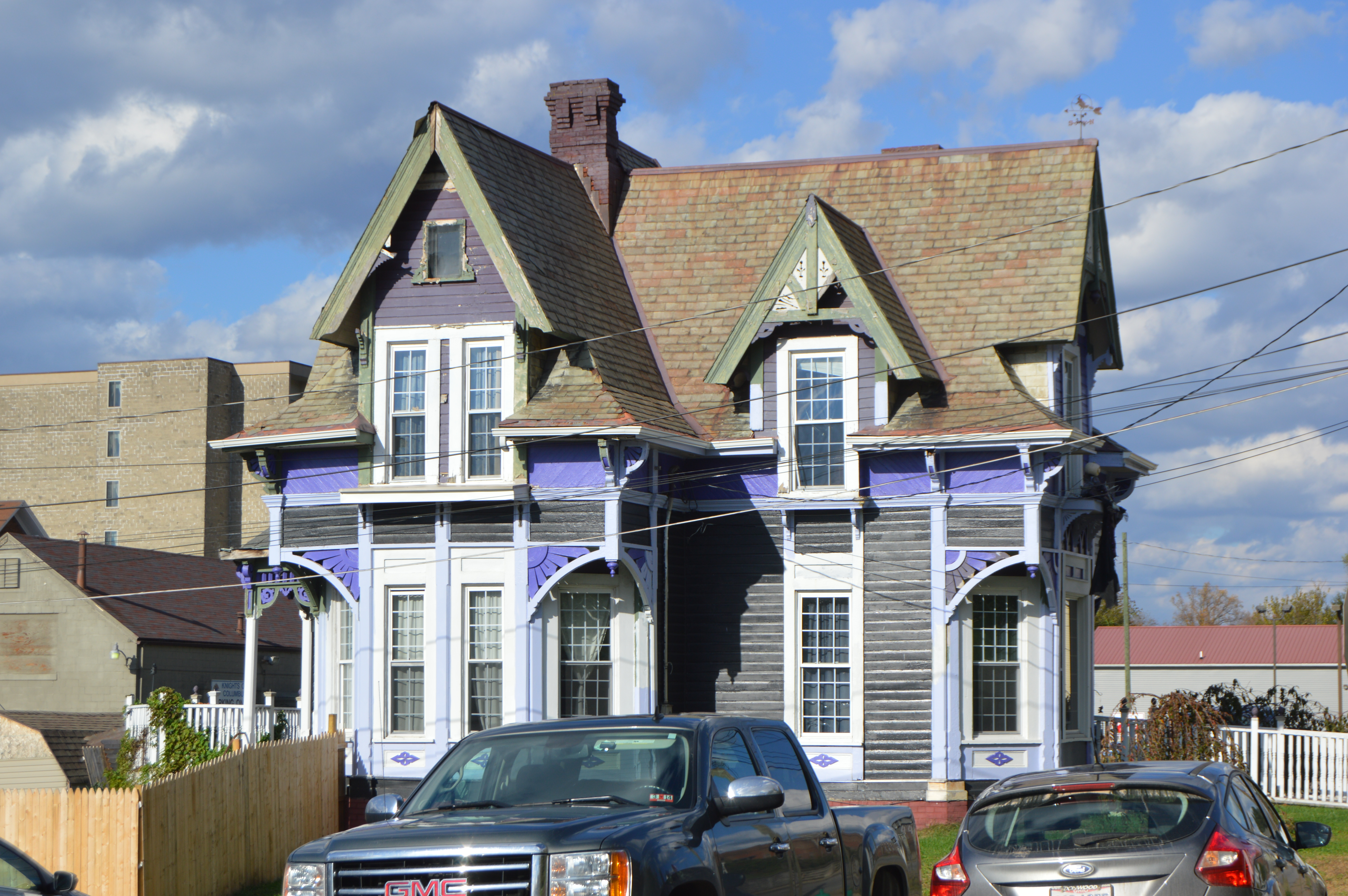 Southern front of the House at 10th and Avery Streets in Parkersburg, West Virginia, United States. Built in the late nineteenth century, it is listed on the National Register of Historic Places.